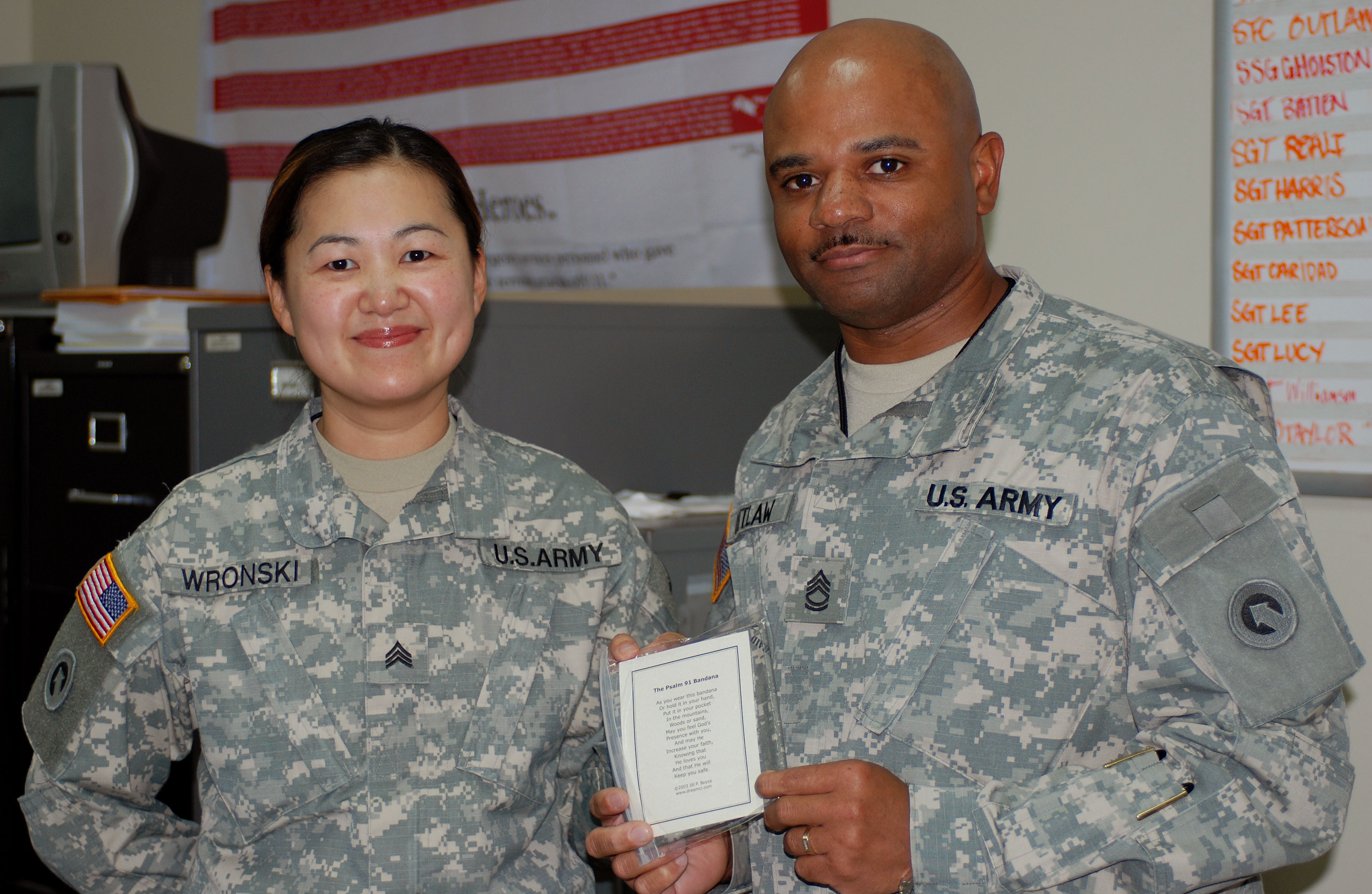 Sgt. Jeongeun Wronski, 1st TSC chaplain assistant NCO stands next to Sgt.1st Class Clayton Outlaw, of the Special General Staff section of the 1st TSC who displays a Psalm 91 Bandana.